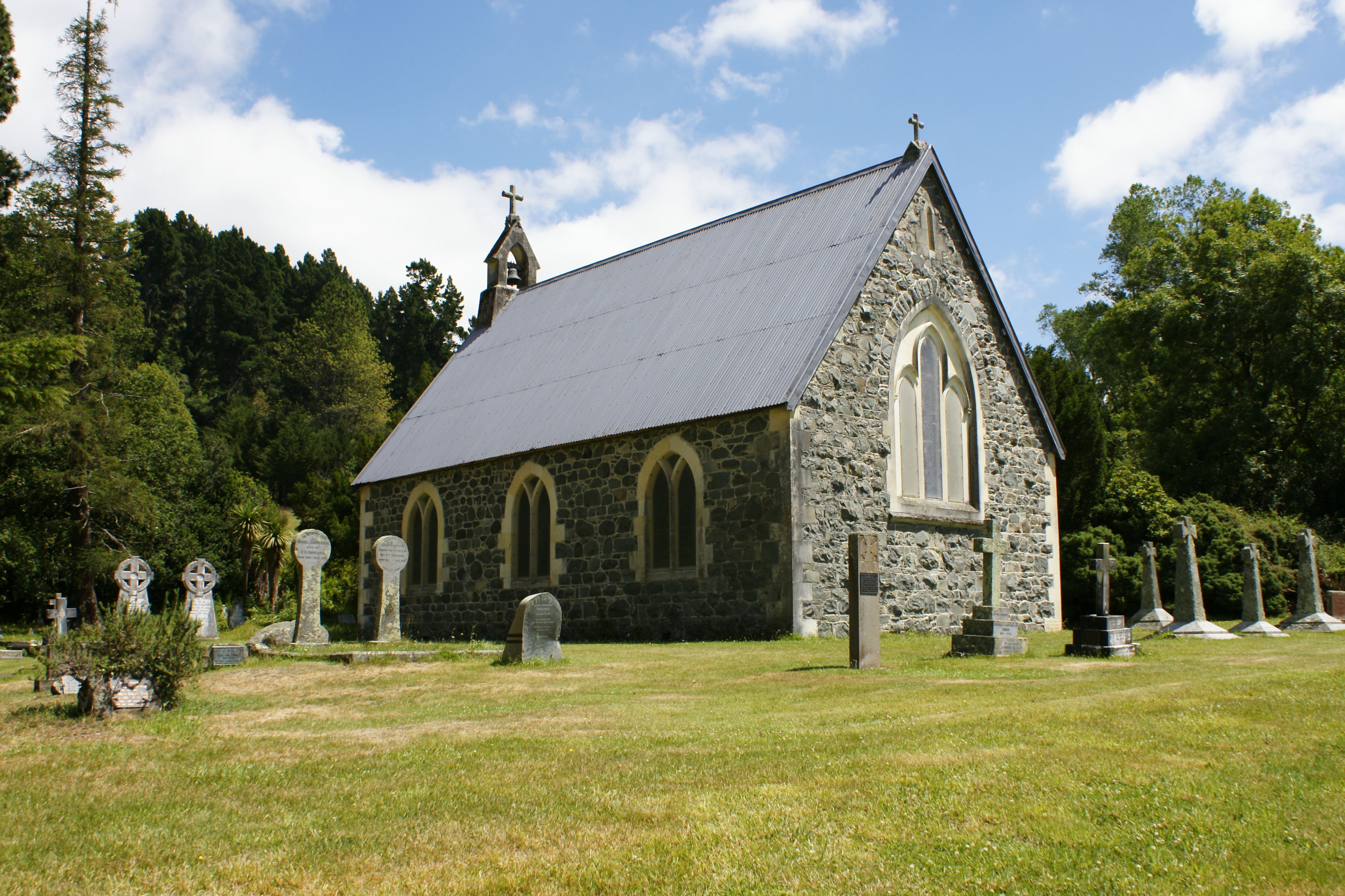 Mount Peel Church, a heritage item registered by the New Zealand Historic Places Trust as Category II.